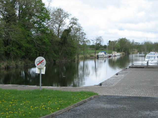 Lecarrow Pier, County Roscommon, Ireland